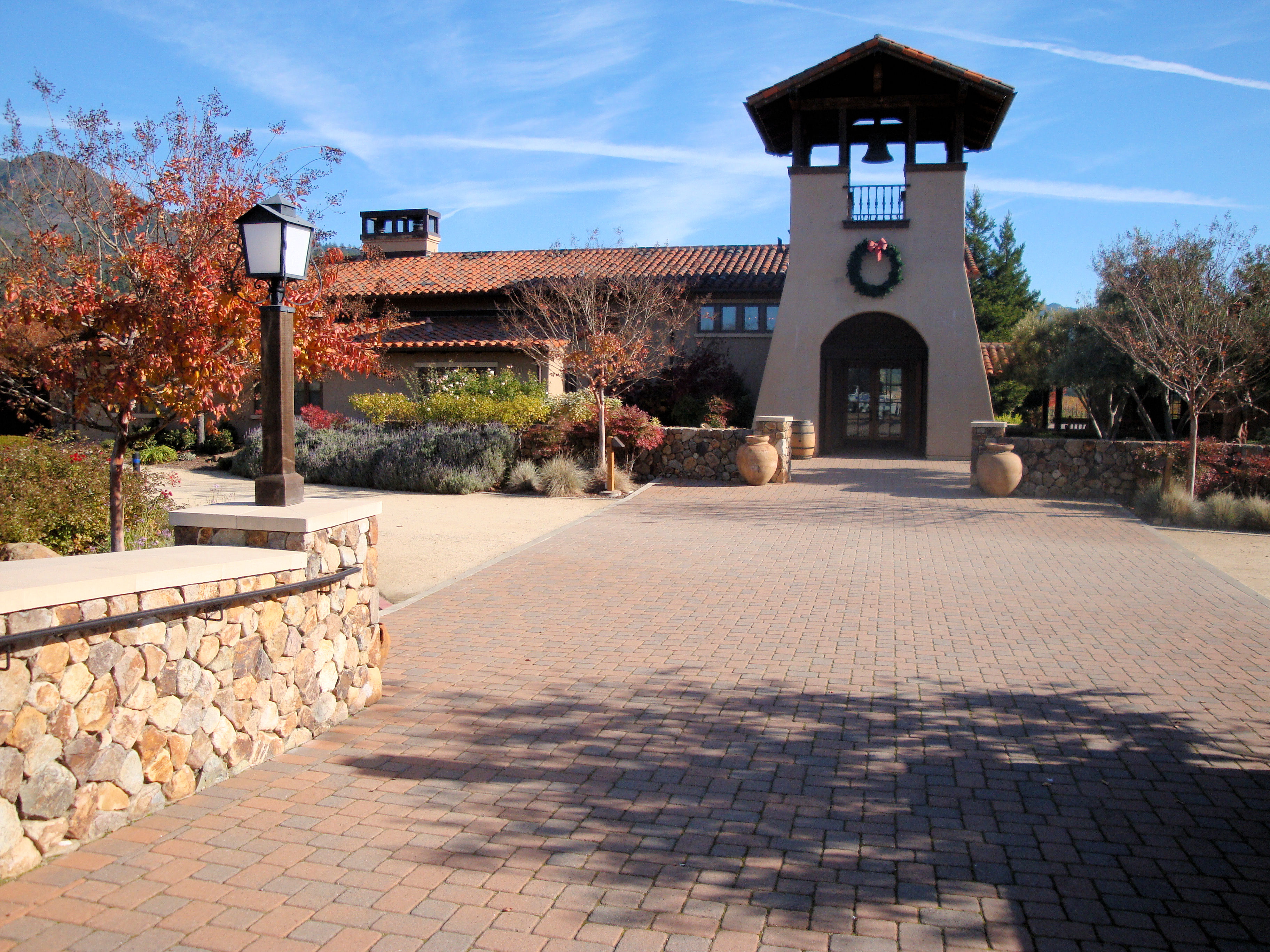 St. Francis Winery & Vineyards, at Santa Rosa, California, United States.